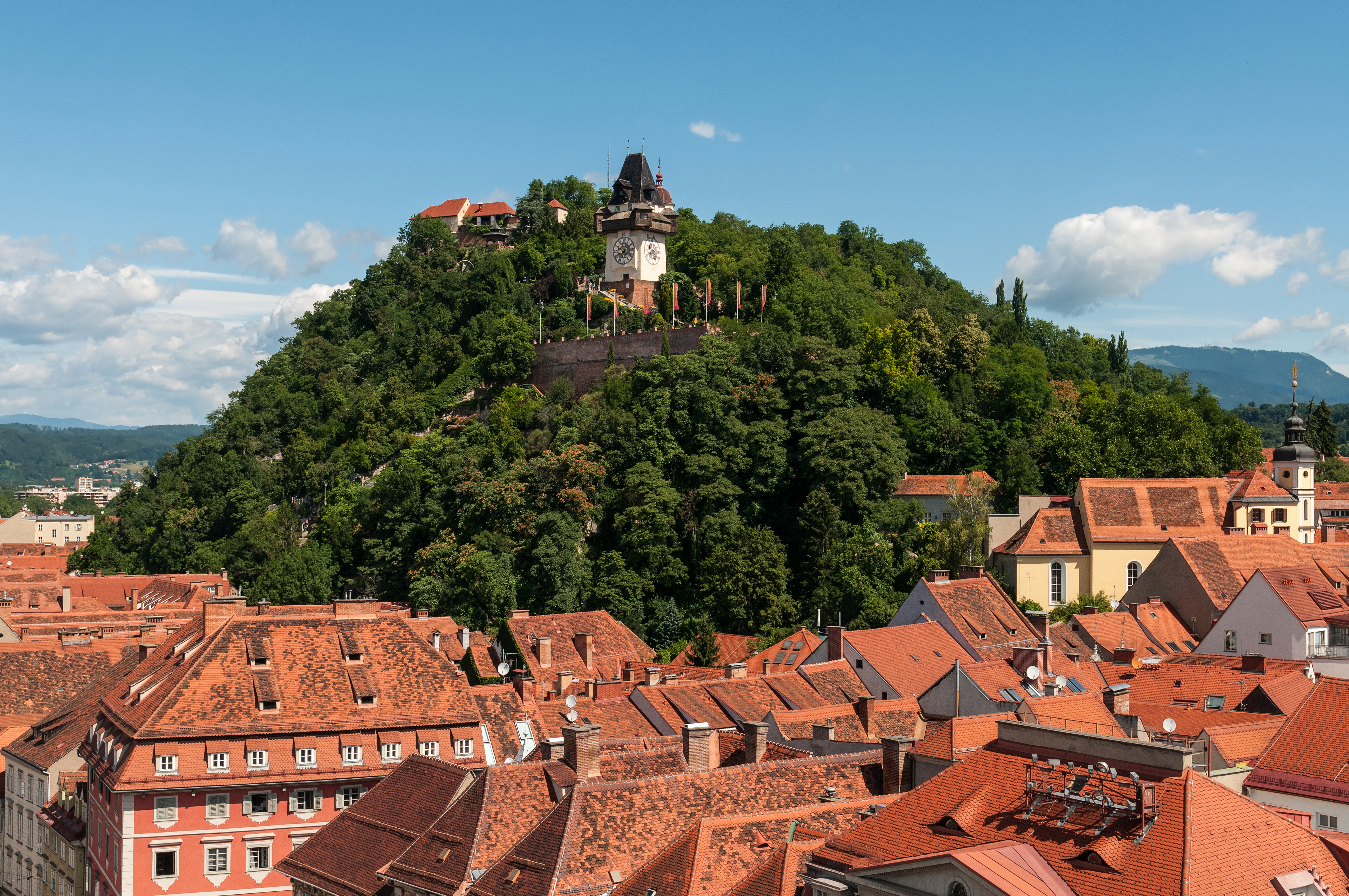 Castle mountain Graz, View from the spire of the town hall